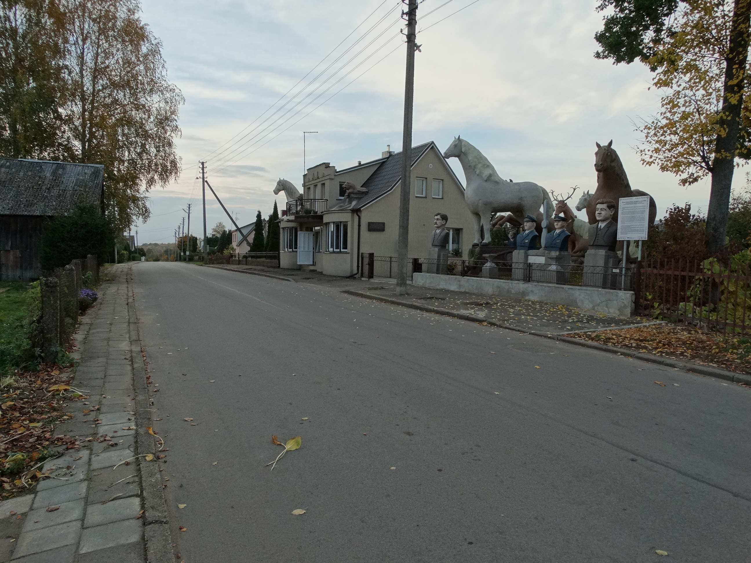 Street, amateur sculptures, Kudirkos Naumiestis, Lithuania